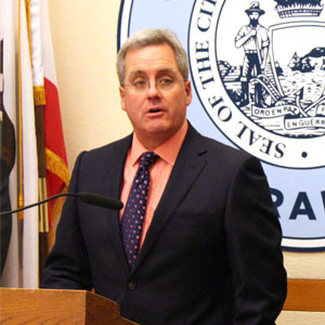 City Attorney Dennis Herrera